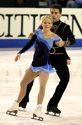 Anabelle Langlois and Patrice Archetto compete in their long program at the 2004 Four Continents Championships in Hamilton, Ontario. Photo taken by me. Vesperholly 05:18, 17 July 2006 (UTC)